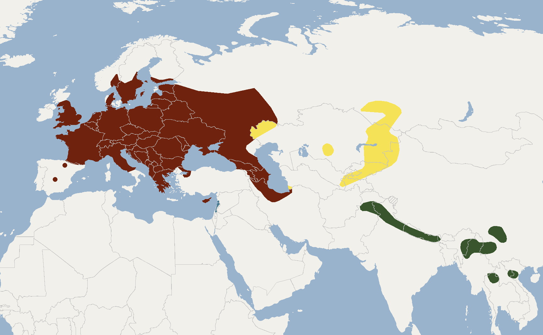 according to IUCNRedlist. subspecific range: N.n.noctula in brown, N.n.lebanoticus in blue, N.n.mecklenburzevi in yellow, N.n.labiata in green